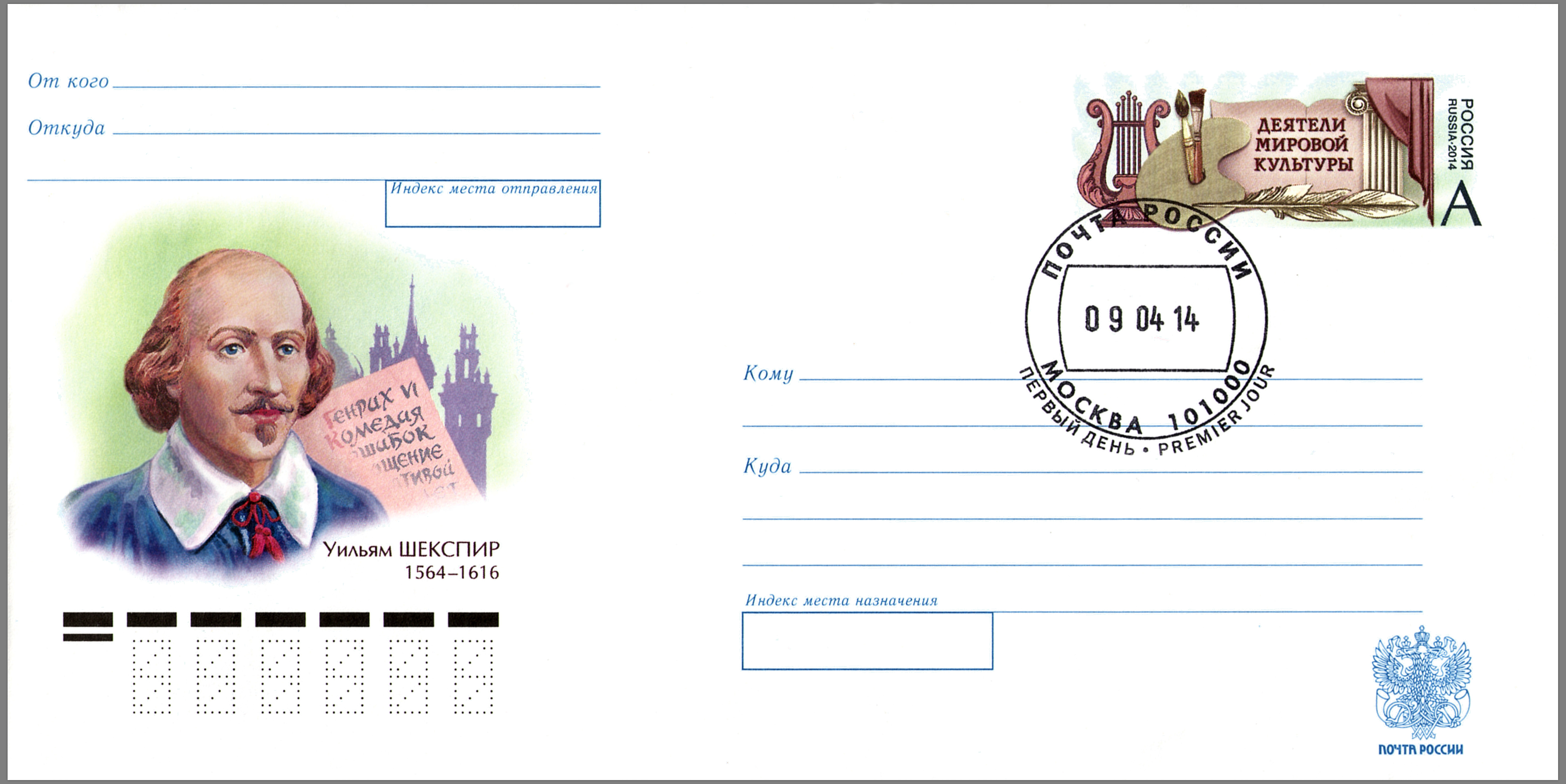 Figures of the World Culture (an ongoing series of postal stationery envelopes). The 450th birth anniversary of William Shakespeare (1564—1616), an English poet, playwright and an actor. The illustrated postal stationery envelope with commemorative stamp, Russia, 9 April 2014. PTC Marka Catalogue No 257/кор-14. Envelope paper VBM (ВБМ) with watermarks “ПОЧТА РОССИИ”. Offset printing. Size of the envelope: 110×220 mm. Print run: 1,000,000. The non-denominated stamp of the ongoing series with symbols of arts (“Letter A”, for domestic letters, weight 20 g or less). The illustration: the portrait of William Shakespeare. The cancellation with the universal first day postmark, Moscow, 9 April 2014.